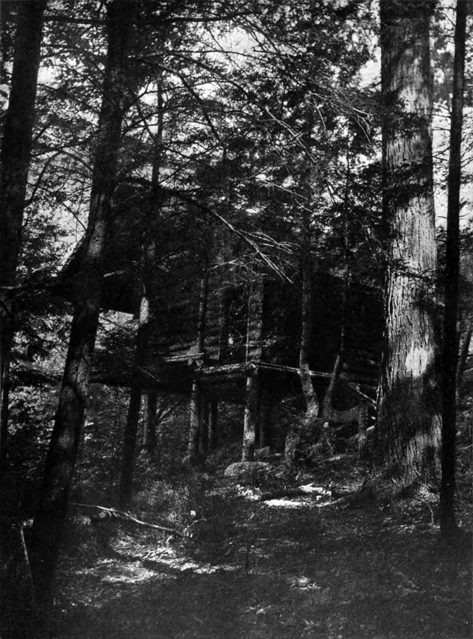 Mr MacDowell's Log Cabin in the Woods at Peterboro, New Hampshire